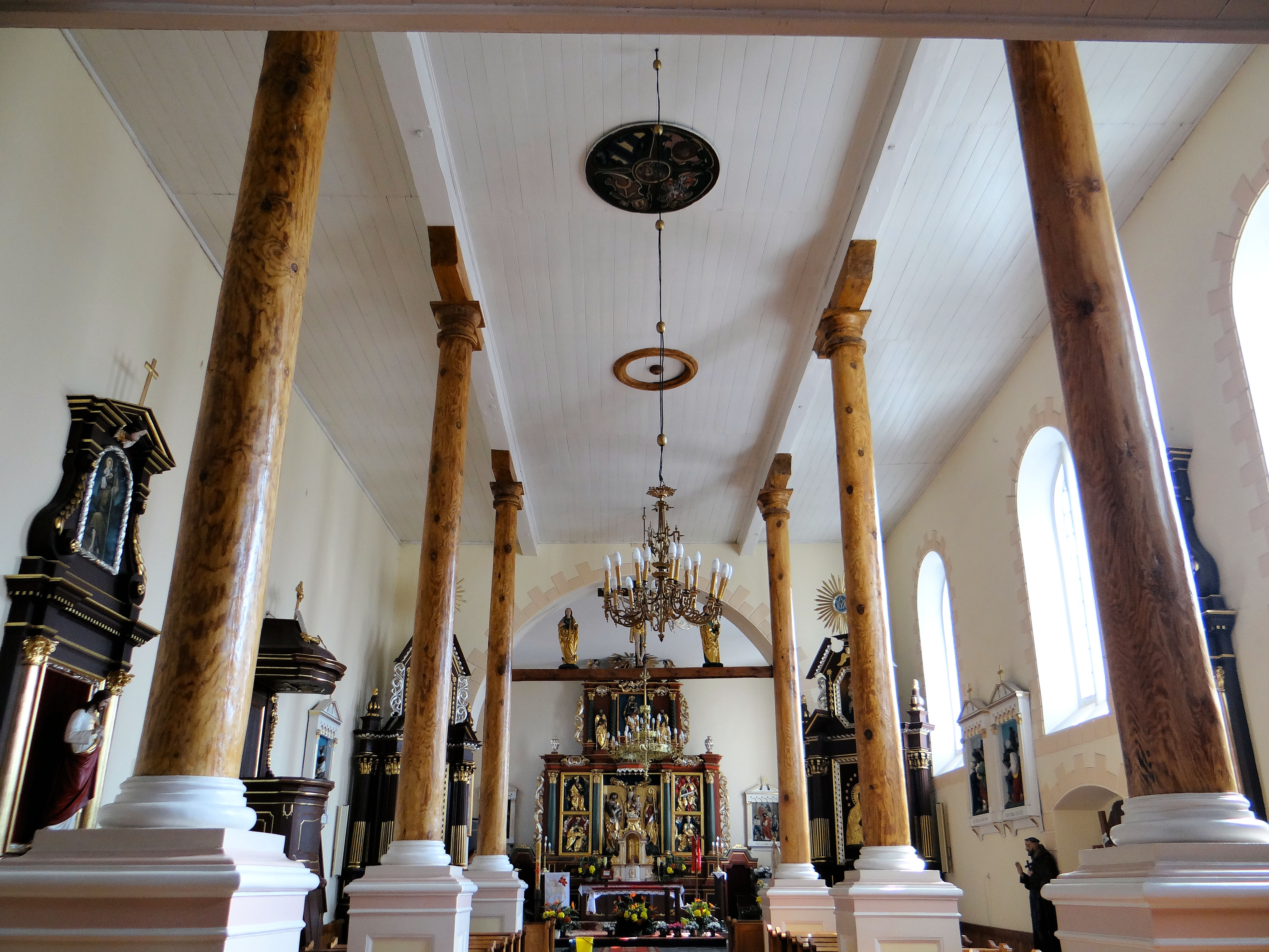 Interior of Saint John the Baptist church in Cegłów